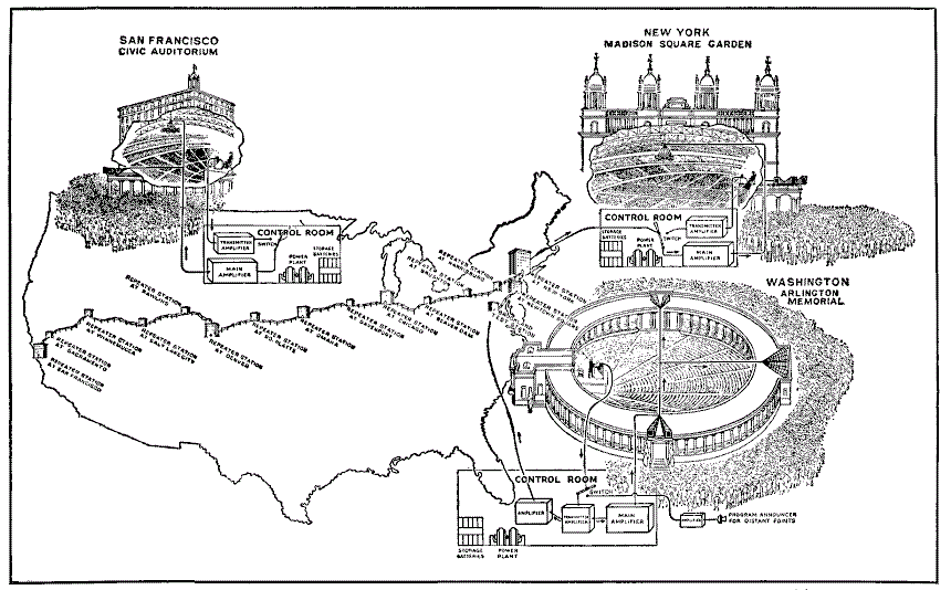 On November 11, 1921 (Armistice Day), President Warren G. Harding gave a speech at the "Tomb of the Unknowns" at the Arlington Cemetery in Arlington, Virginia. The speech was also carried by telephone lines to auditorium audiences in New York City and San Francisco